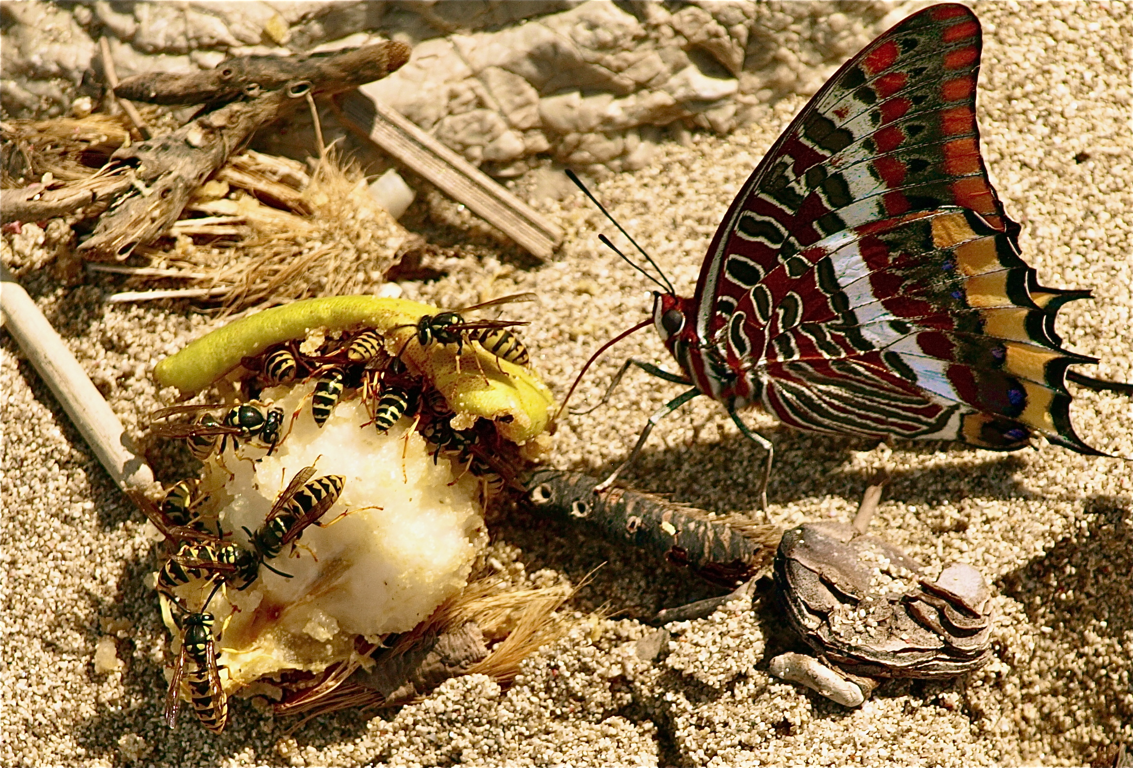 The human rests of fruits on a sandy beach are very attractive to butterflies and wasps. OLYMPUS DIGITAL CAMERA